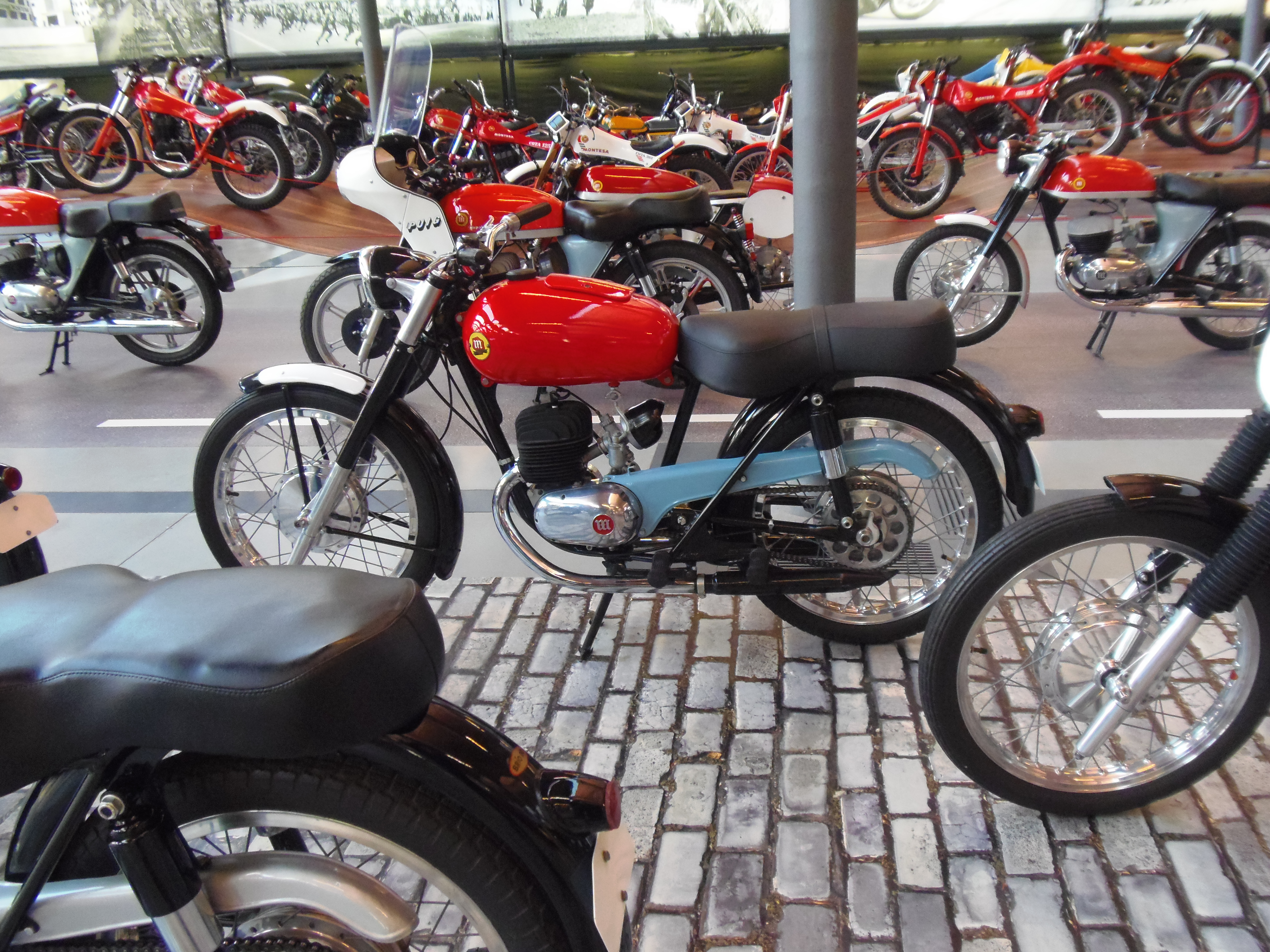 Montesa 150, 1959